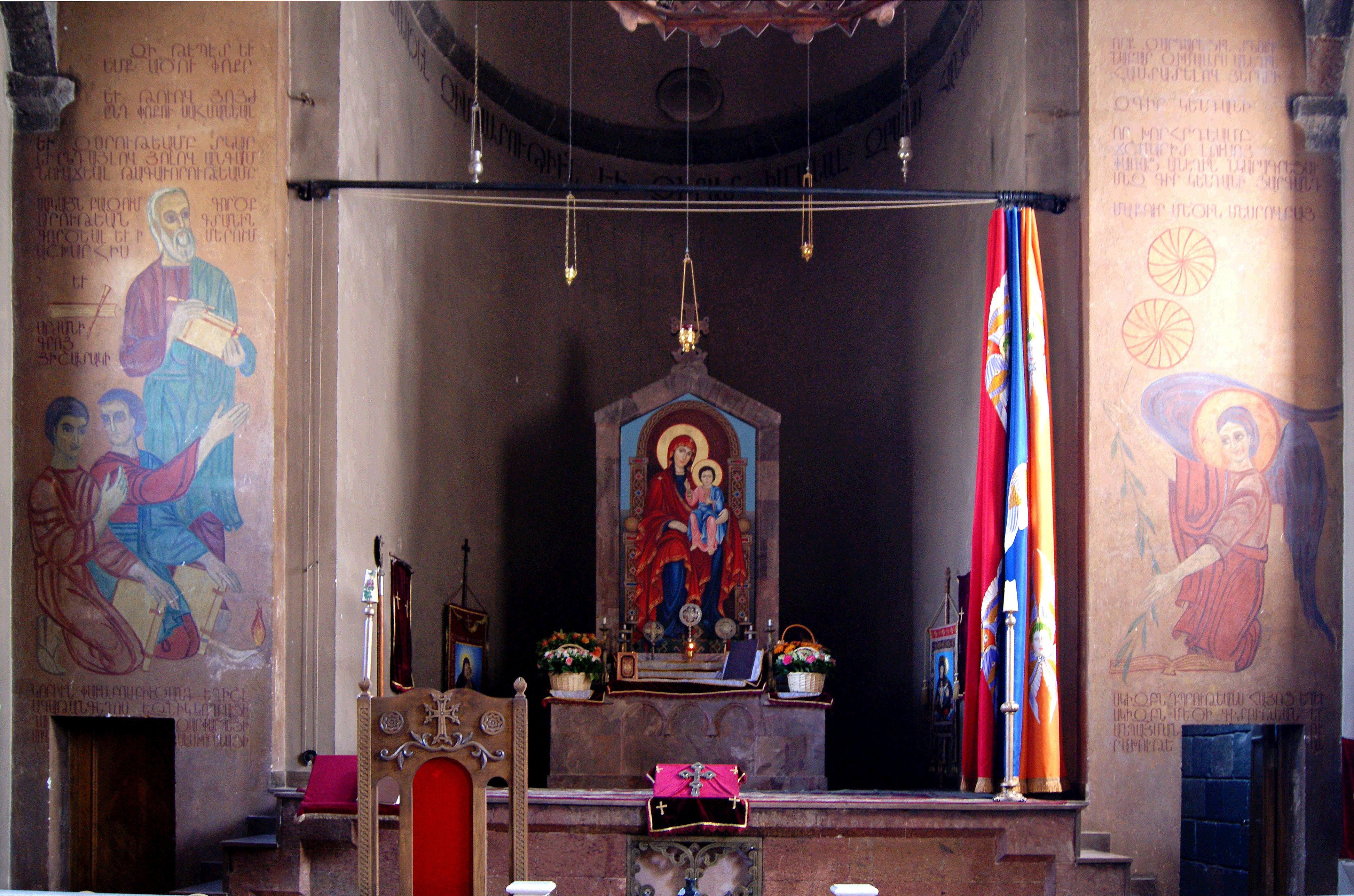 Saint Mesrop Mashtots Cathedral in Oshakan 113/22